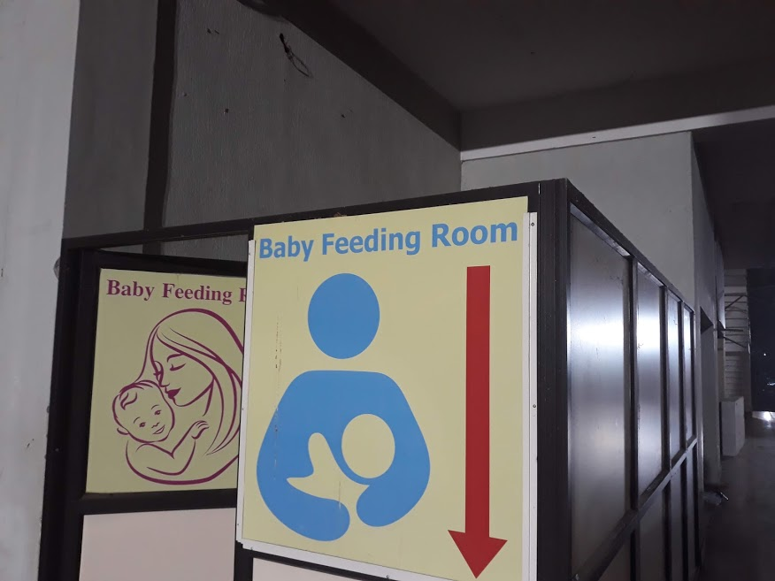 Baby feeding room